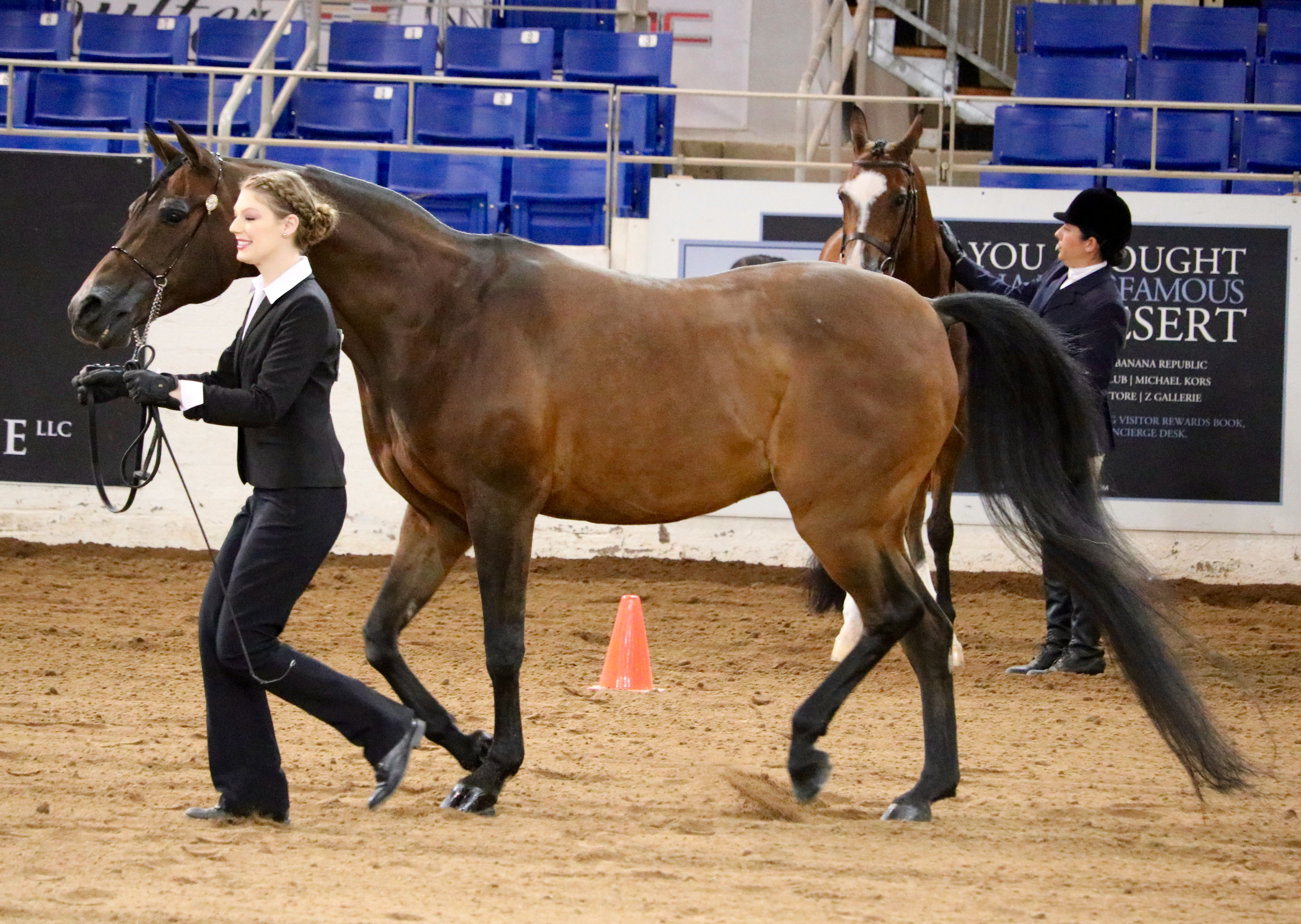 Adult Showmanship class at Scottsdale Arabian Show, 2017. Competitor in show-legal style for halter competition with Arabians, no hat, carrying whip